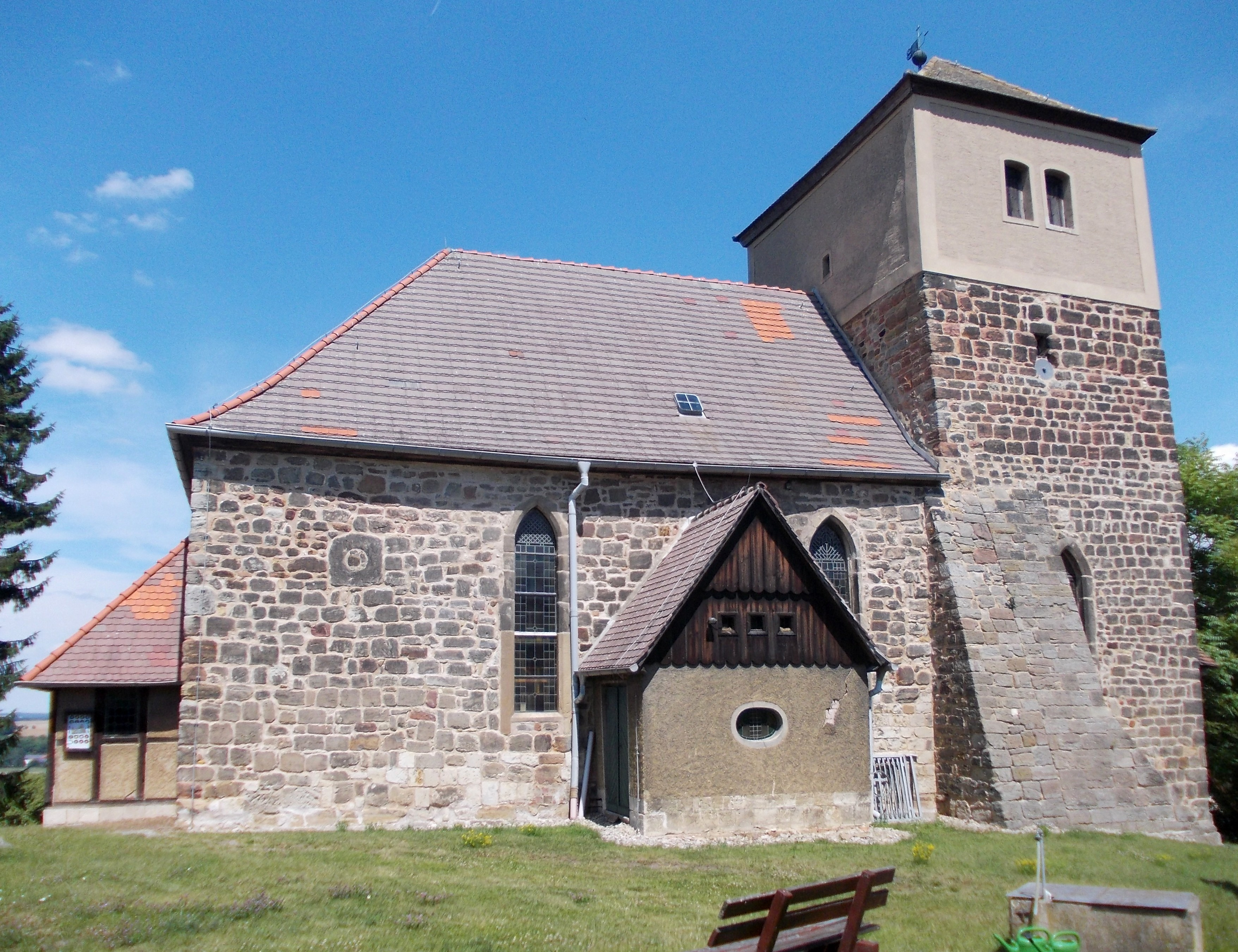 Holy Cross Church in Görschen (Mertendorf, district: Burgenlandkreis, Saxony-Anhalt)